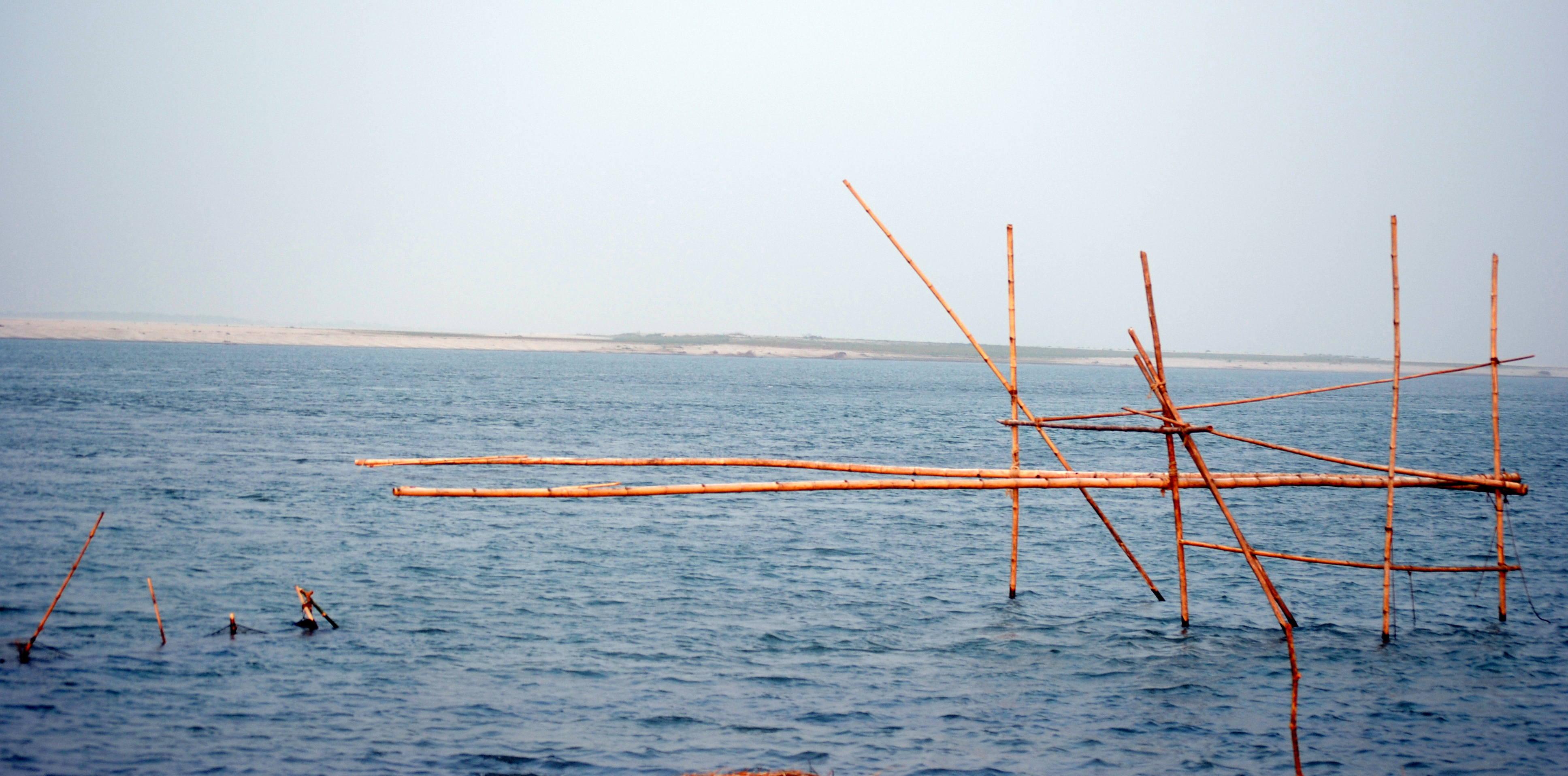 Silghat is a small town on the bank of river Brahmaputra.